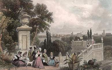 Gardens of Villa Spada in Bologna - Italy : Original steel engraving drawn by J. D. Harding, engraved by E. Finden. 1832